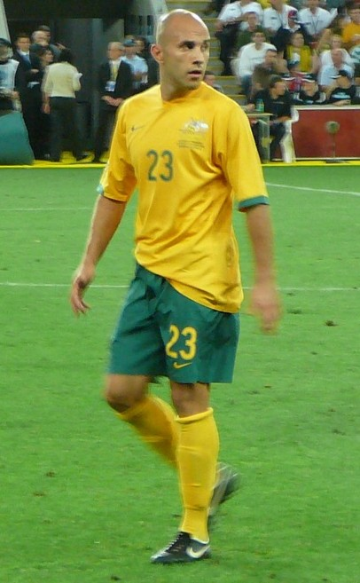 It's a walk in the park for Bresciano and Cahill